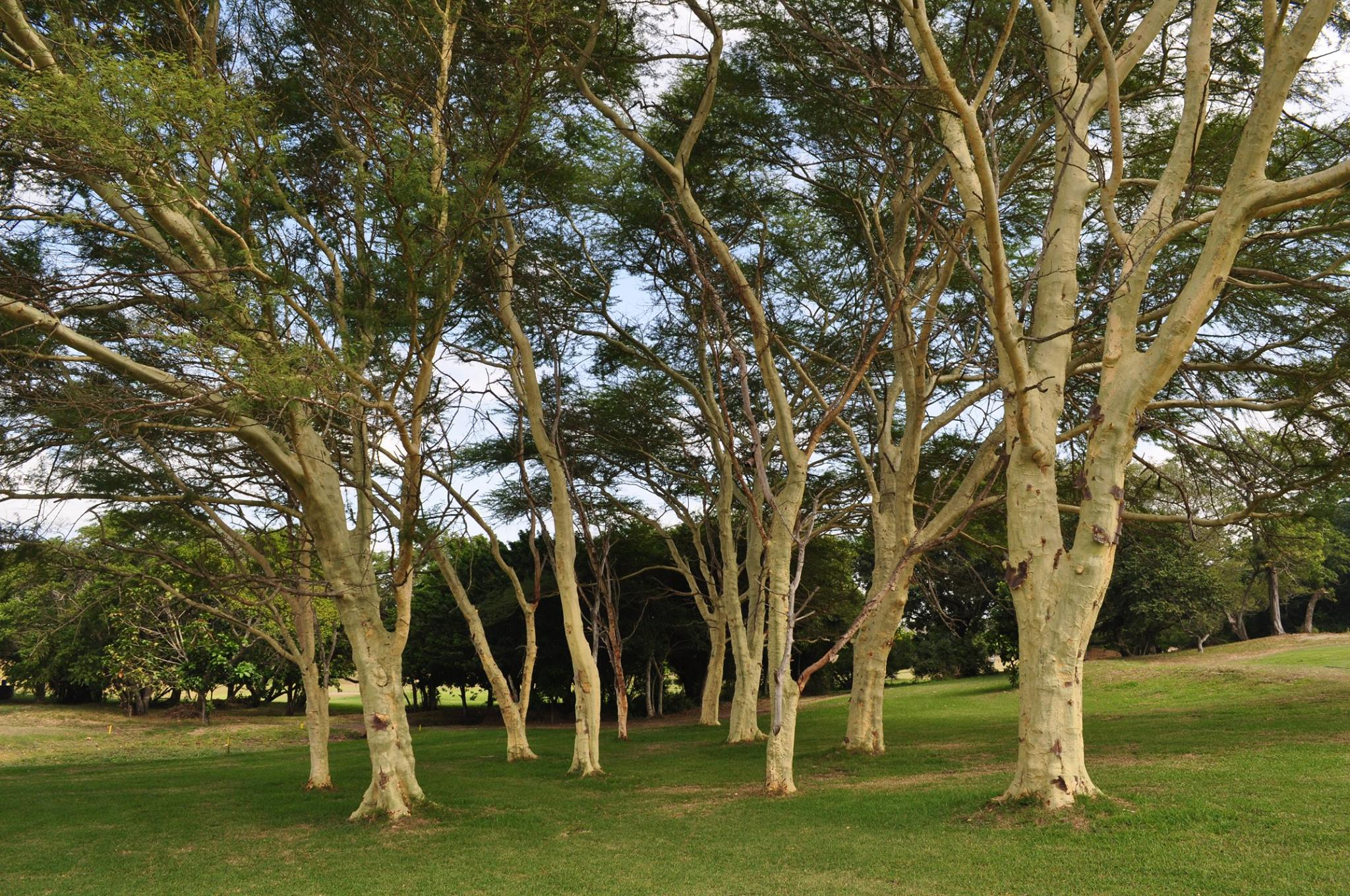 Copse of Acacia xanthophloea Benth., planted on Golf Course at Monzi, KwaZulu-Natal, South Africa